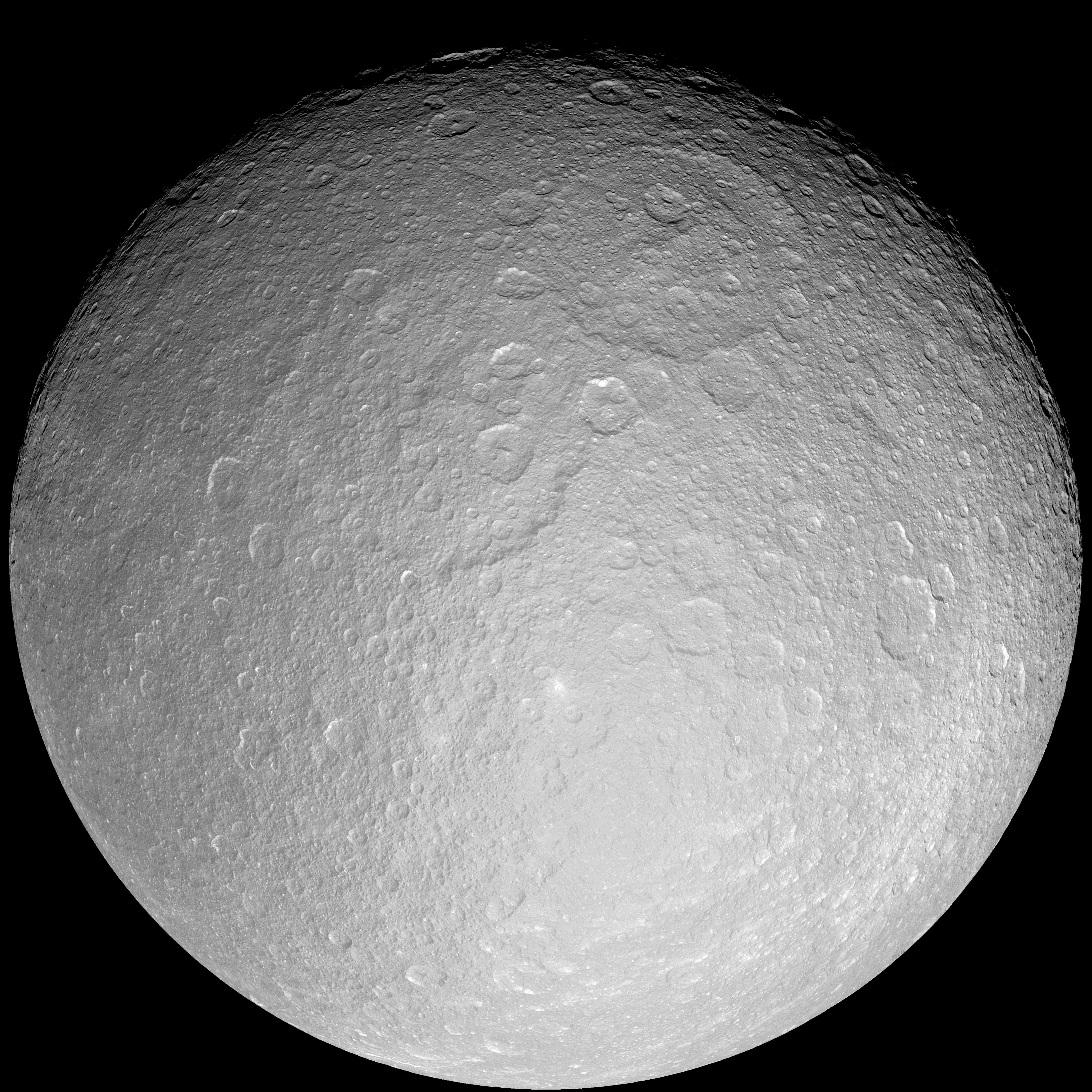 original description: This giant mosaic reveals Saturn's icy moon Rhea in her full, crater-scarred glory. This view consists of 21 clear-filter images and is centered at 0.4 degrees south latitude, 171 degrees west longitude.